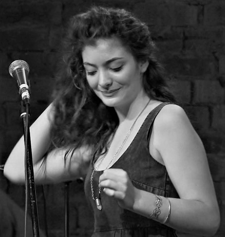 Lorde performs original songs for the first time at The Vic Unplugged in 2011